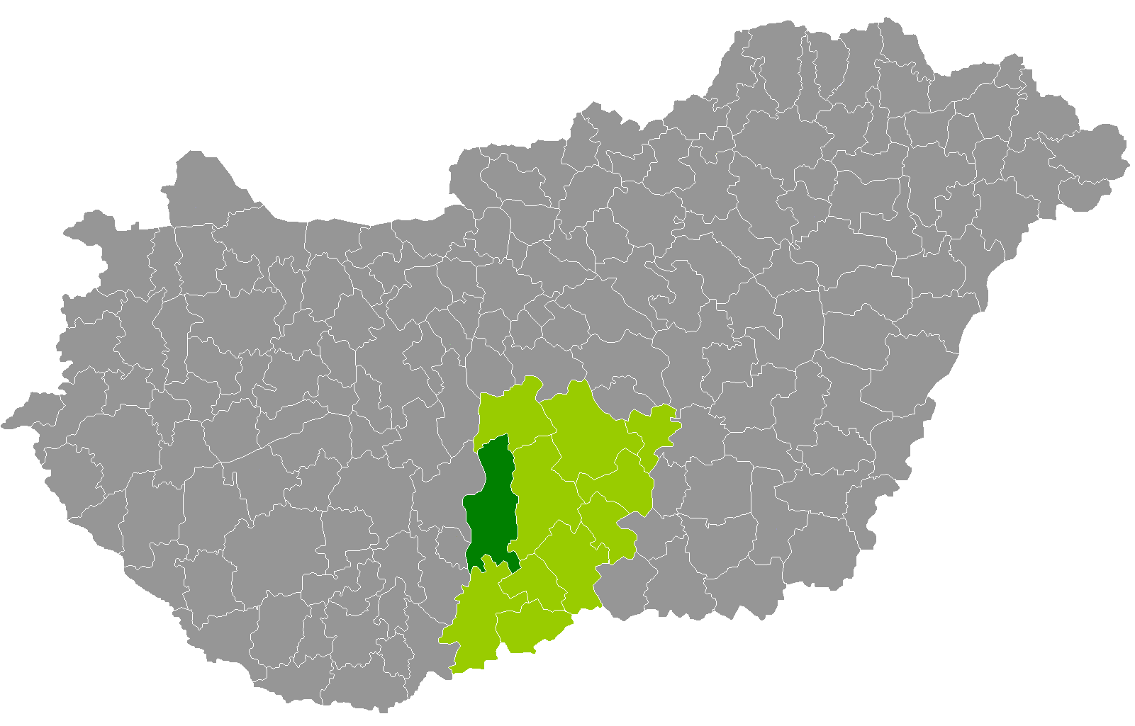 Location of Kalocsa District, Bács-Kiskun, Hungary